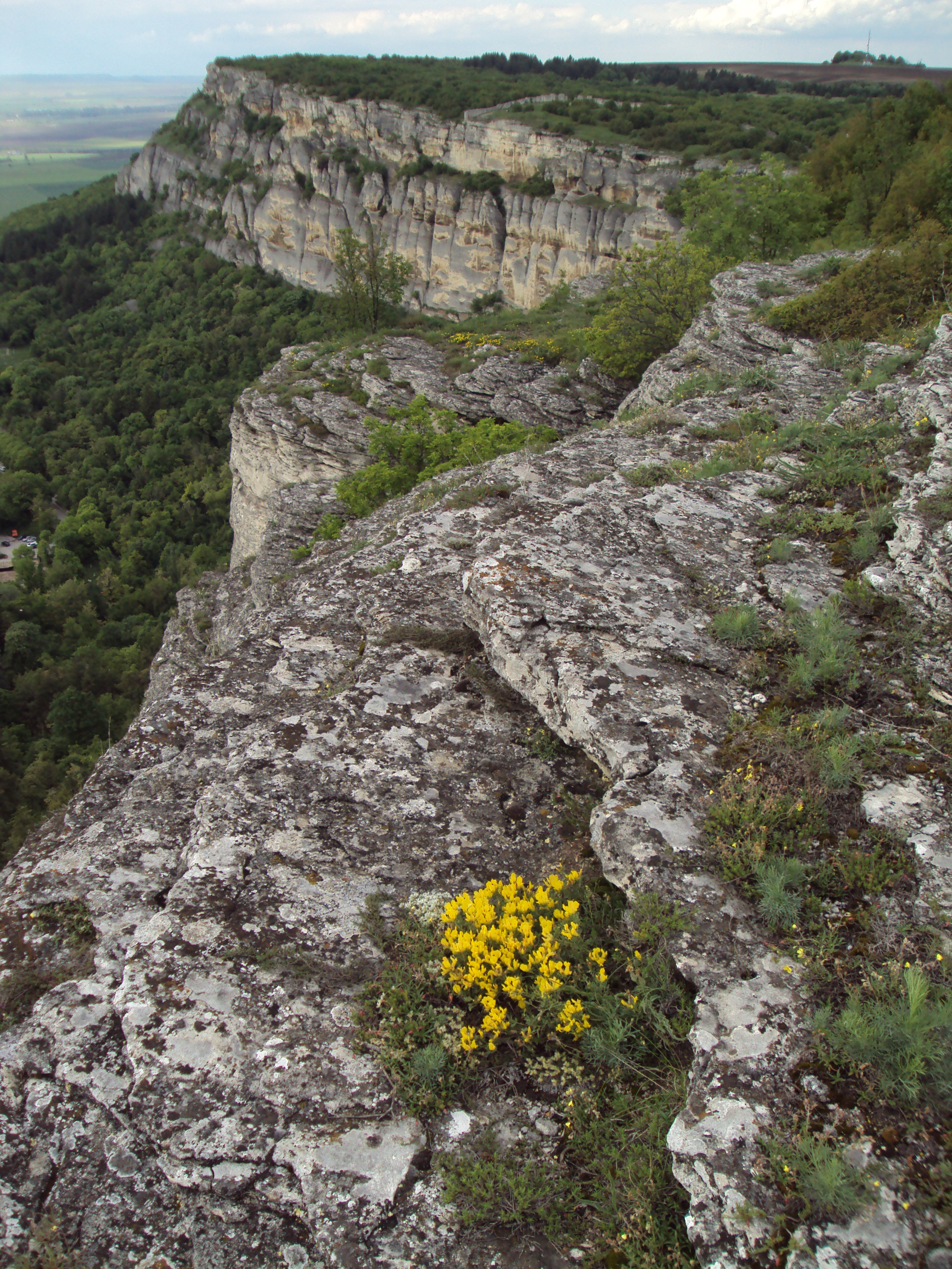 Madara